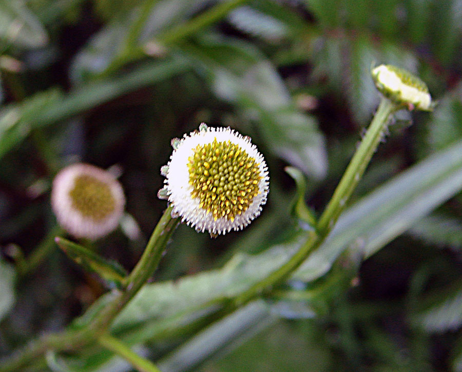 This flower from the subalpine zone of Mt. Kinabalu (Sabah, Borneo) was originally called M. bellidiformis, and as M. cabrerae by others. In context at